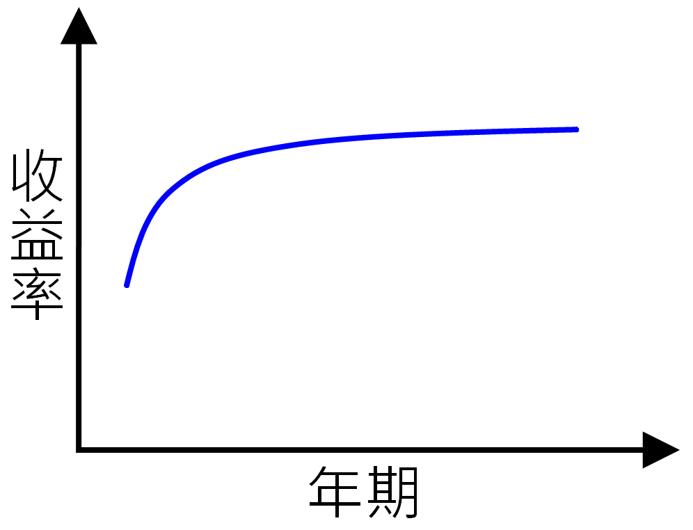 Conceptual diagram of yield curve.